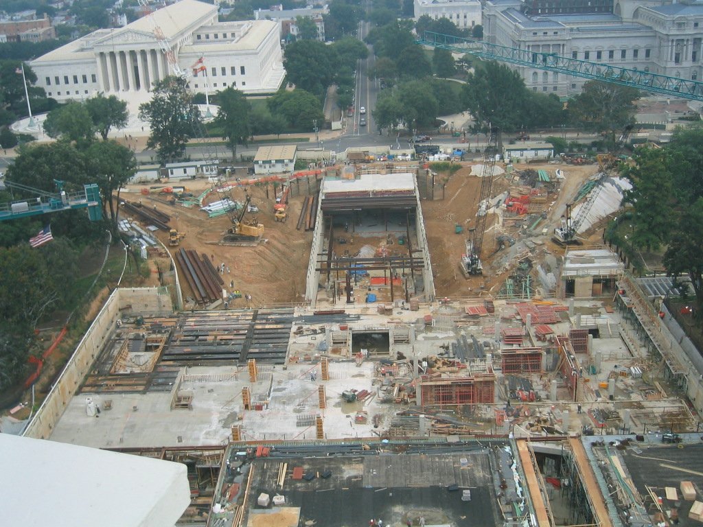 Construction of the U.S. Capitol Visitor Center as viewed from the dome above the U.S. Capitol, Friday, July 23, 2004. The U.S. Supreme Court (left) and Library of Congress (right) are visible in the background.